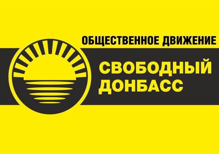 Flag of the political bloc 'Free Donbass'.